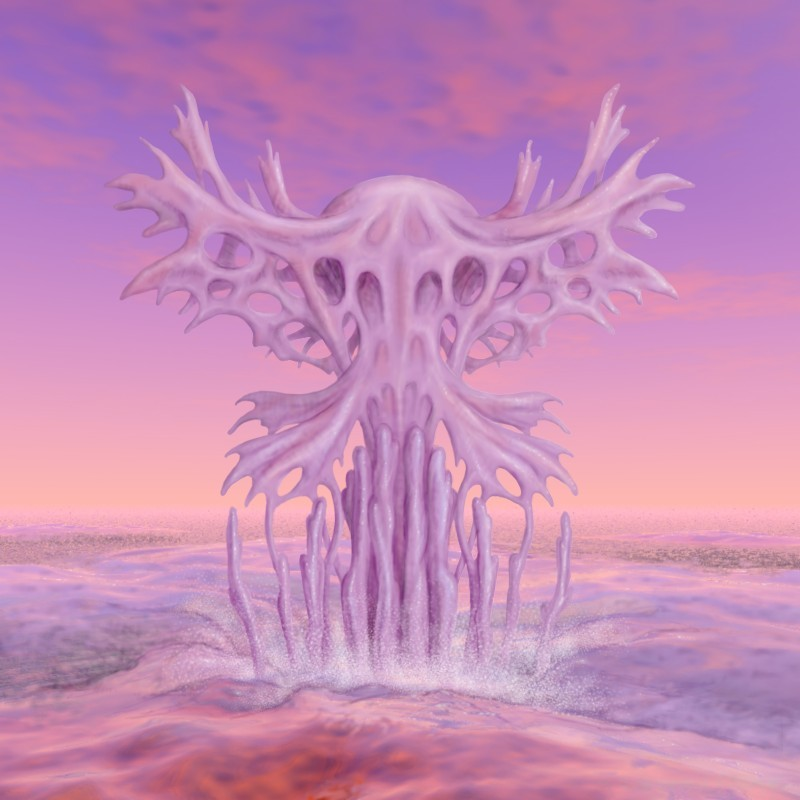 The second stage of forming of a symmetriad